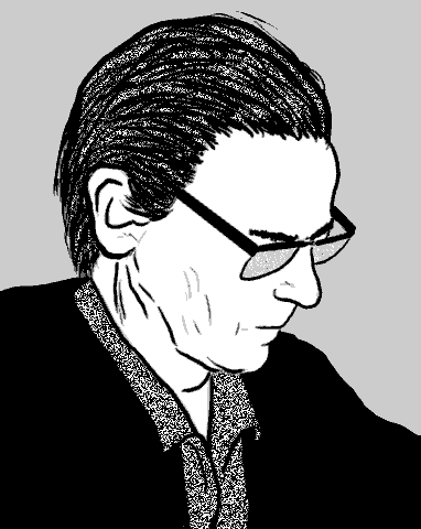 Portrait of the french prehistorian André Leroi-Gpurhan by José-Manuel Benito Álvarez